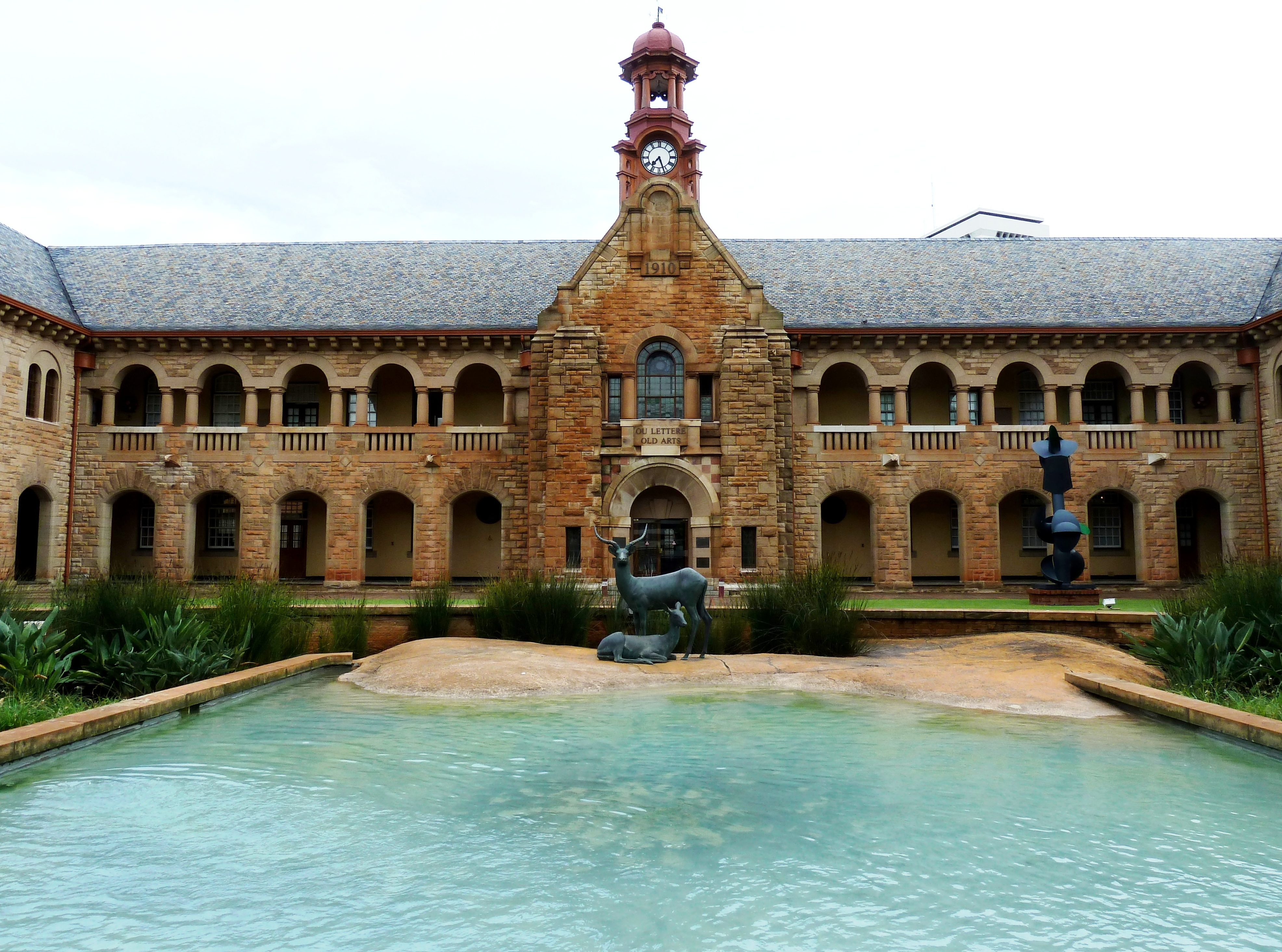 Old Arts building at the University of Pretoria